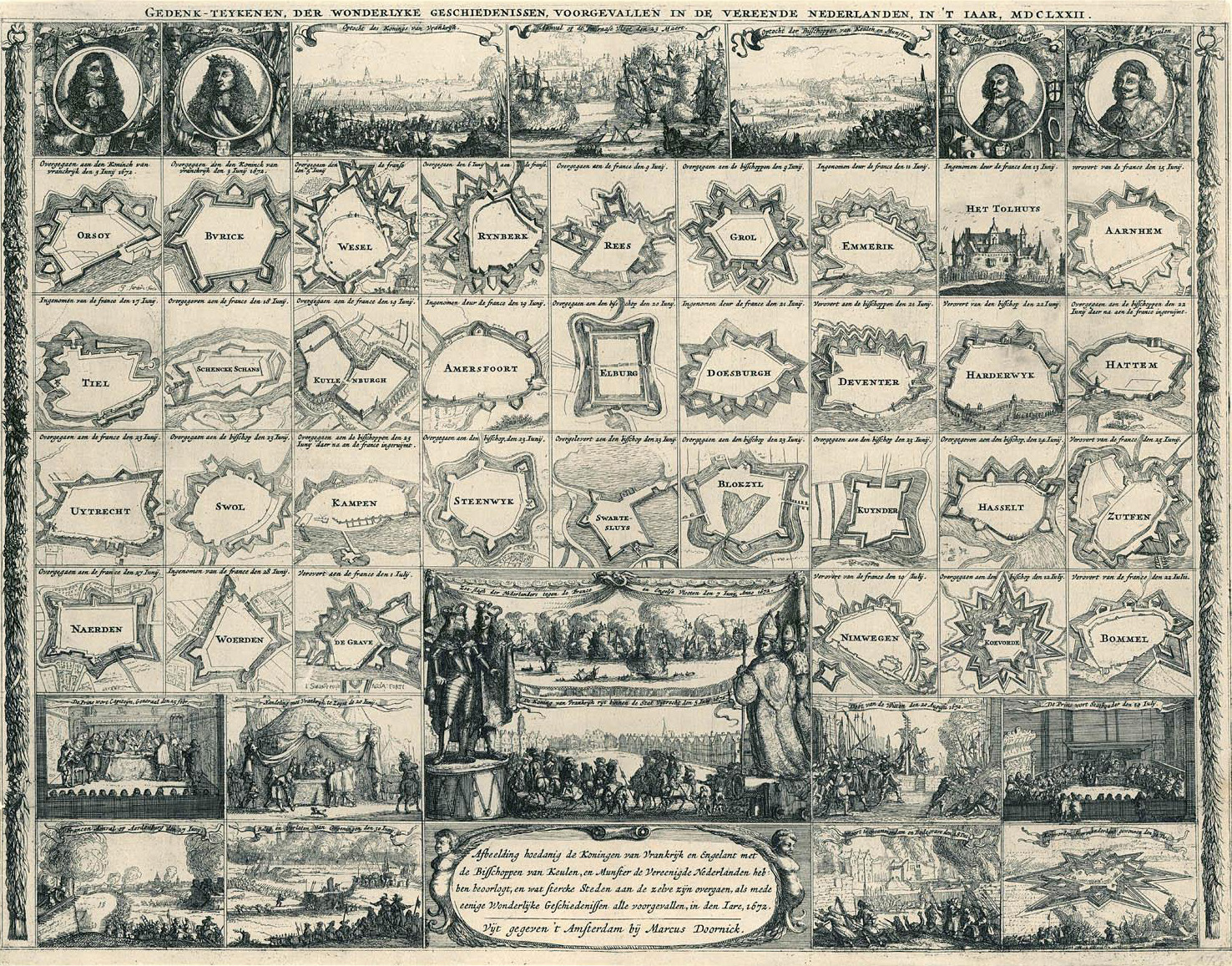 Part of the series Three plates on events from 1672 until the peace of 1674, published in Amsterdam by Marcus Willemsz. Doornick.